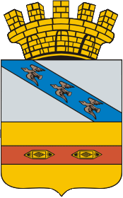 Coat of Arms of Putivl (Kursk Governorate) (1854).